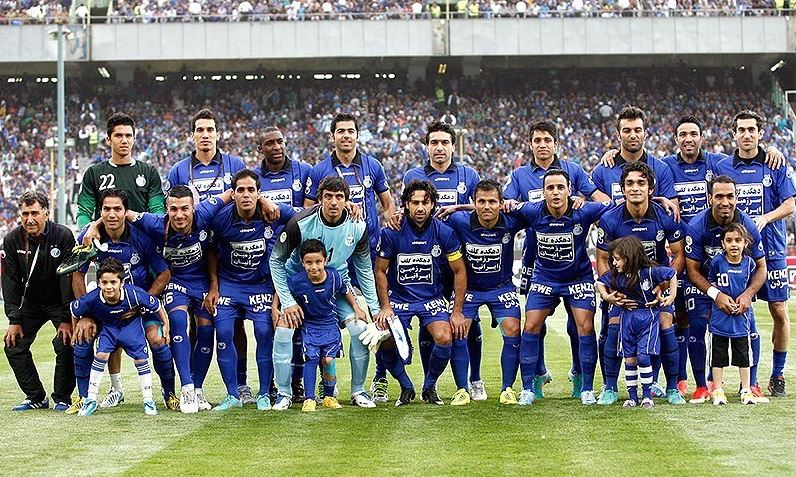 قهرمانی استقلال تهران در لیگ دوازدهم